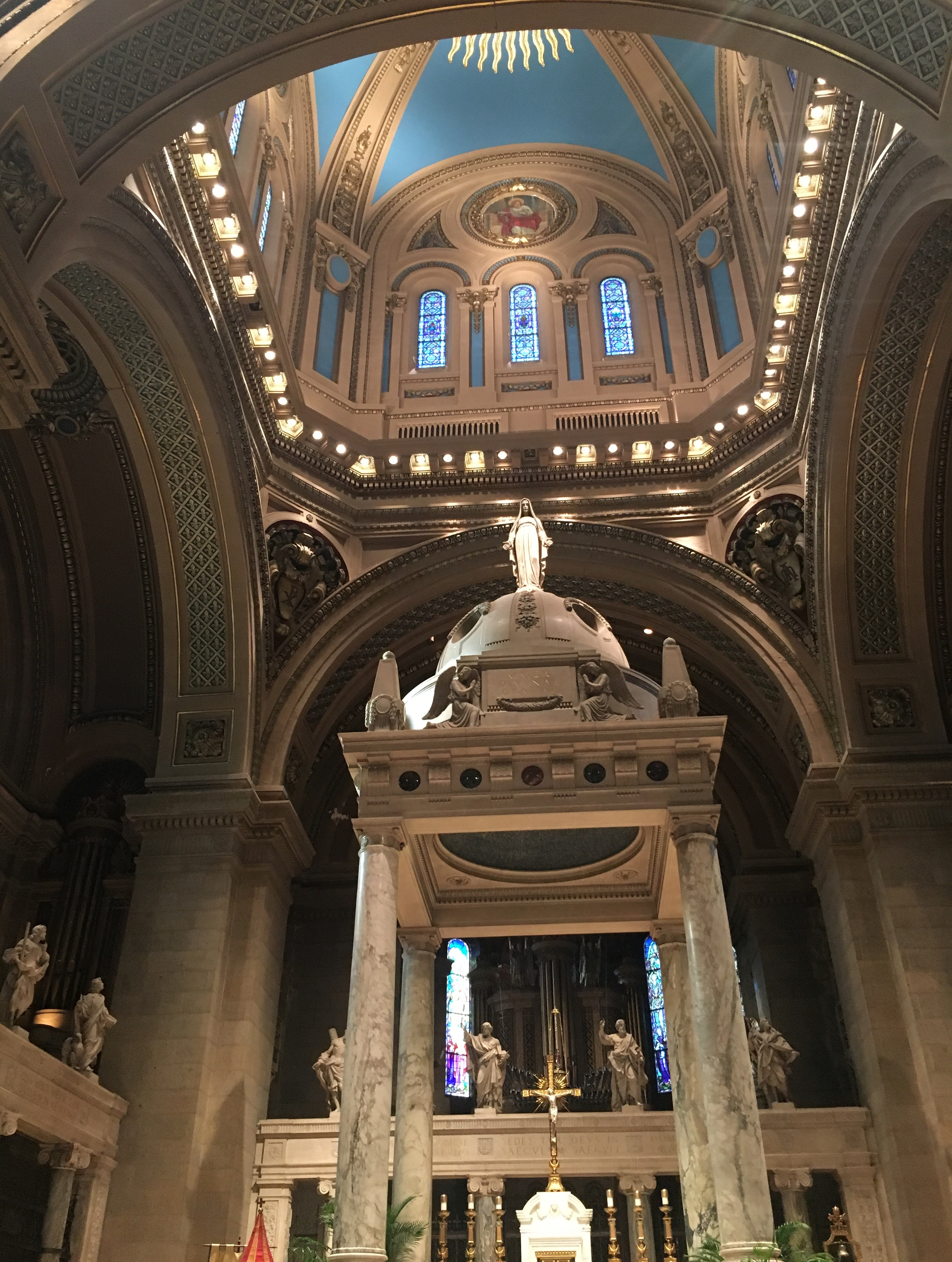 The dome ceiling above the altar at the Basilica of Saint Mary in Minneapolis, Minnesota.